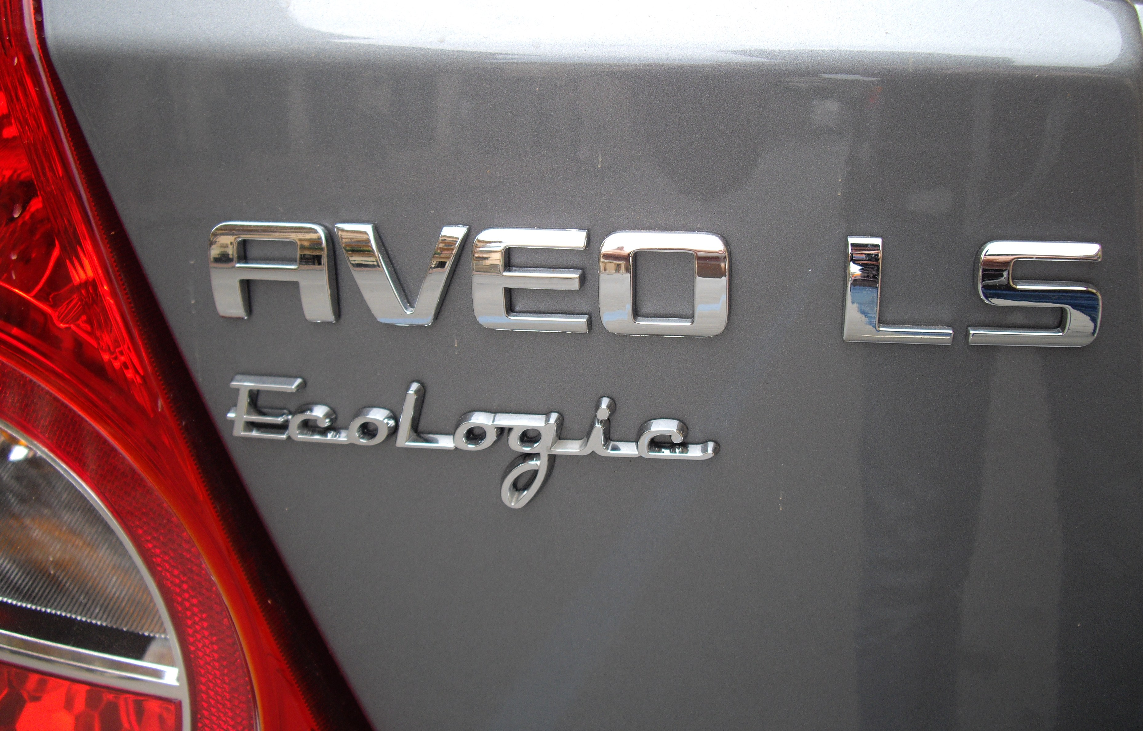 Chevrolet Aveo Eco Logic logo